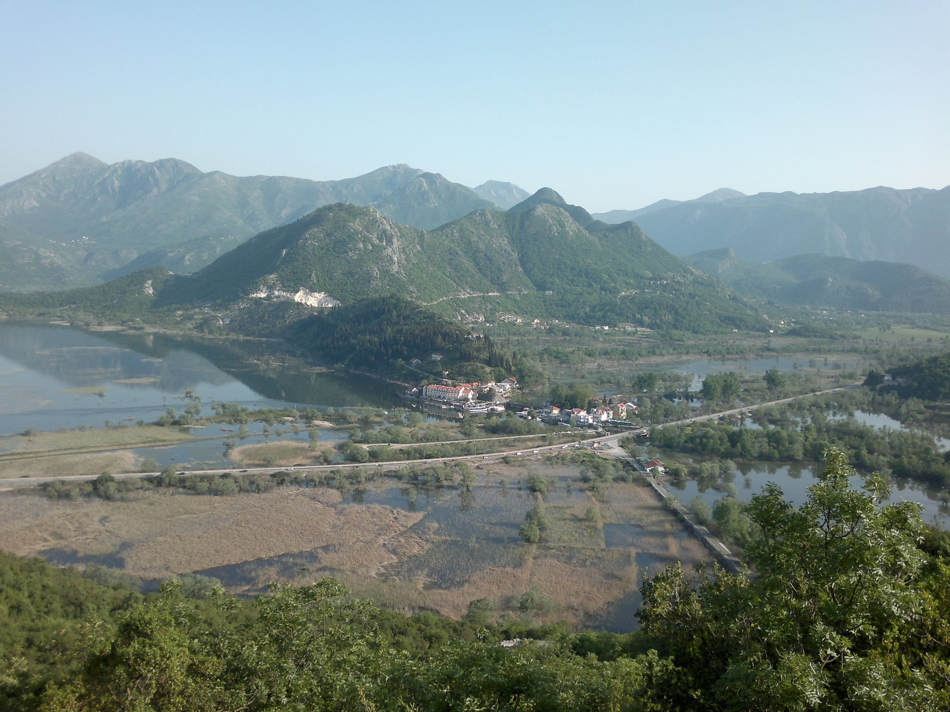 Virpazar in Montenegro, view from the hill across